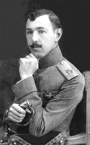 Colonel Elizbar Gulisashvili, 1914 Georgia Pre-1921 image, unknown author